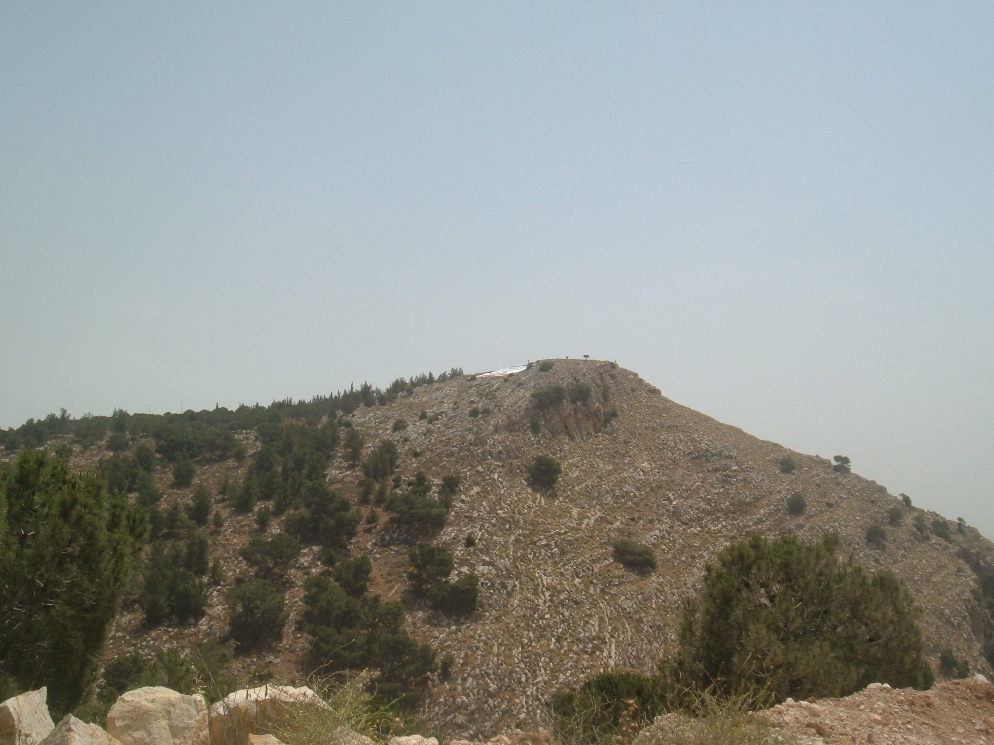 mount precipice nazareth הר הקפיצה, נצרת